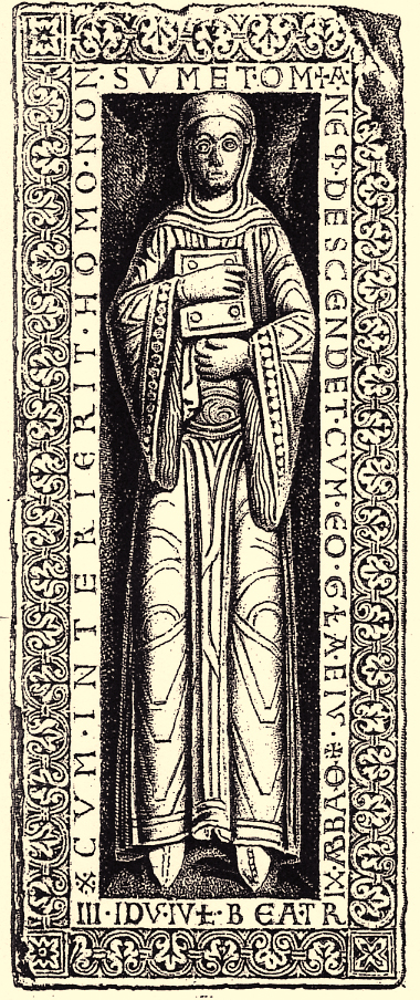 Tombstone of the abbess Beatrix I. of Quedlinburg